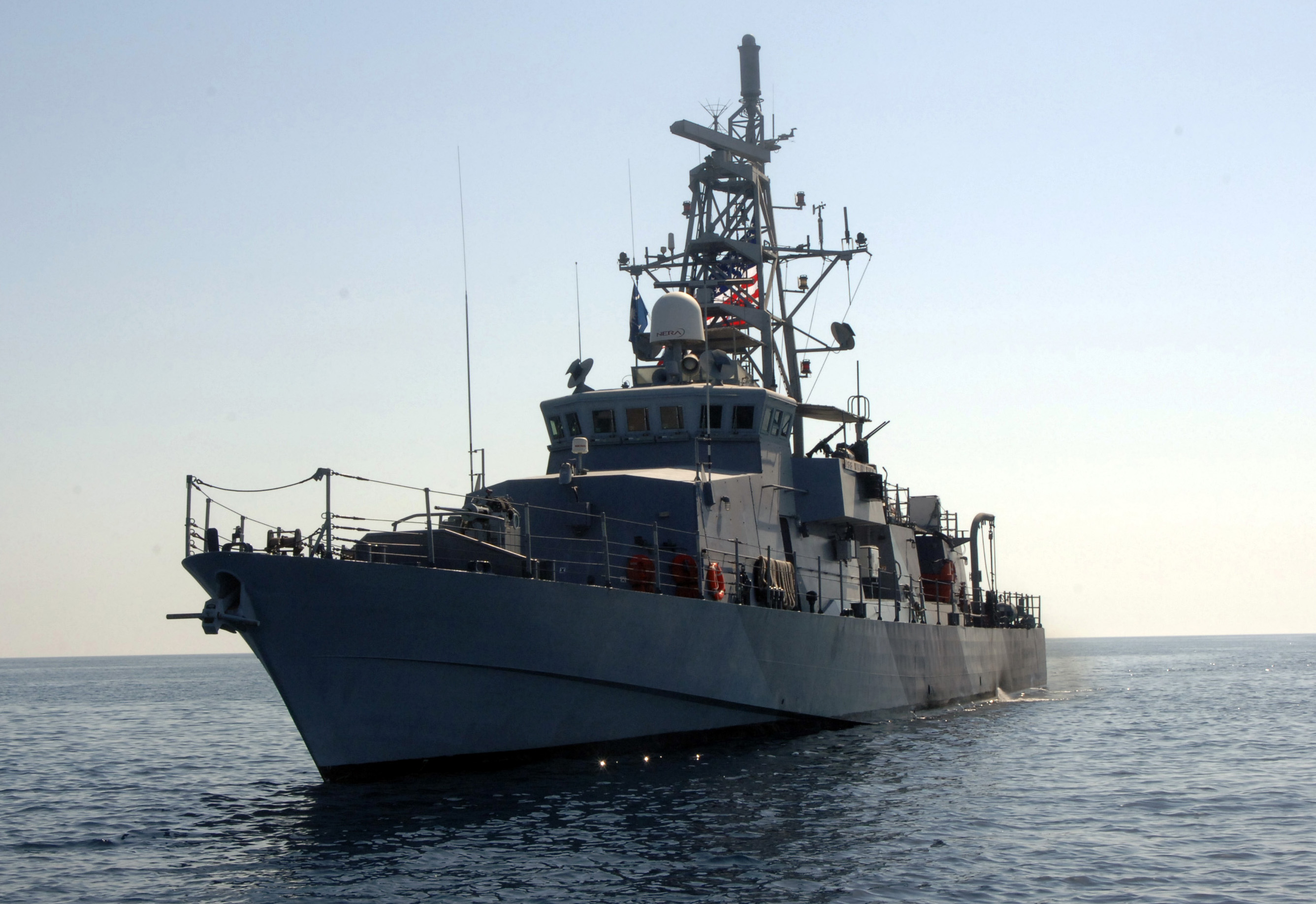 Persian Gulf (Oct. 18, 2006) — The Cyclone-class Coastal patrol craft USS Whirlwind (PC 11), steams along while escorting the Navy's new Joint Maritime Staging Terminal (JMAST) that will support multi-national commander with Maritime Security Operations (MSO) in the Persian Gulf. MSO sets the conditions for security and stability in the maritime environment as well as complement the counter-terrorism and security efforts of regional nations. MSO deny international terrorists use of the maritime environment as a venue for attack or to transport personnel, weapons or other material.